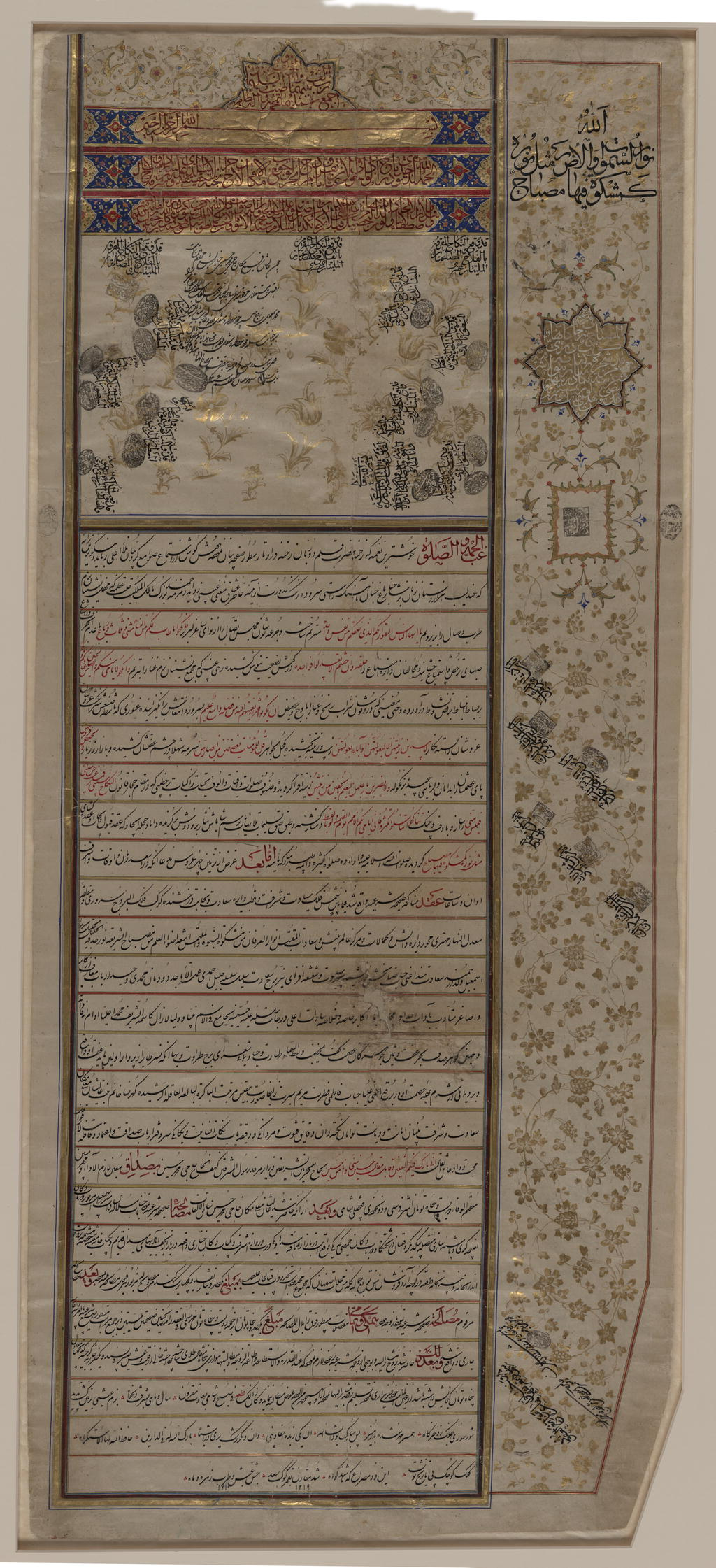 This superb document consists of a legally-binding marriage contract ('aqd-namah) written in Persia (Iran) in 1219/1804-5. Like other Persian marriage contracts of the 19th century, the document is quite imposing (at almost a meter in height) and its goldwork indicative of the couple's wealth. At the top appears an illuminated gold heading (sarloh or sar lawh) containing a number of prayers to God written in red ink on a gold background. On the right of the illuminated sarloh and in the right margin decorated by flower and leaf motifs painted in gold appears another invocation to God as the "Light of the Heavens and the Earth" (ayat al-nur, Qur'an 24:35). Between the illuminated prayers and the main text panel appear a number of seal impressions of the various marriage witnesses and the identification of the document as a marriage (nikah) certificate.